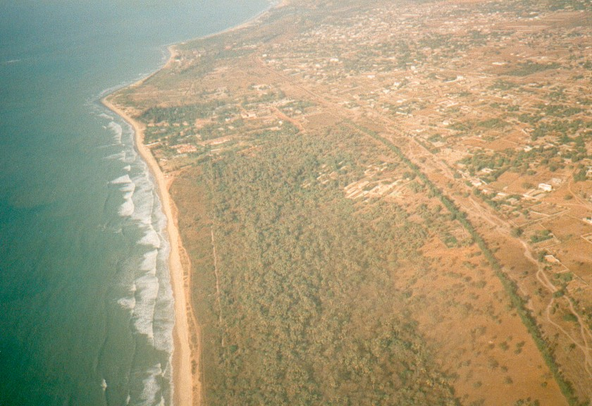 Flying into Gambia